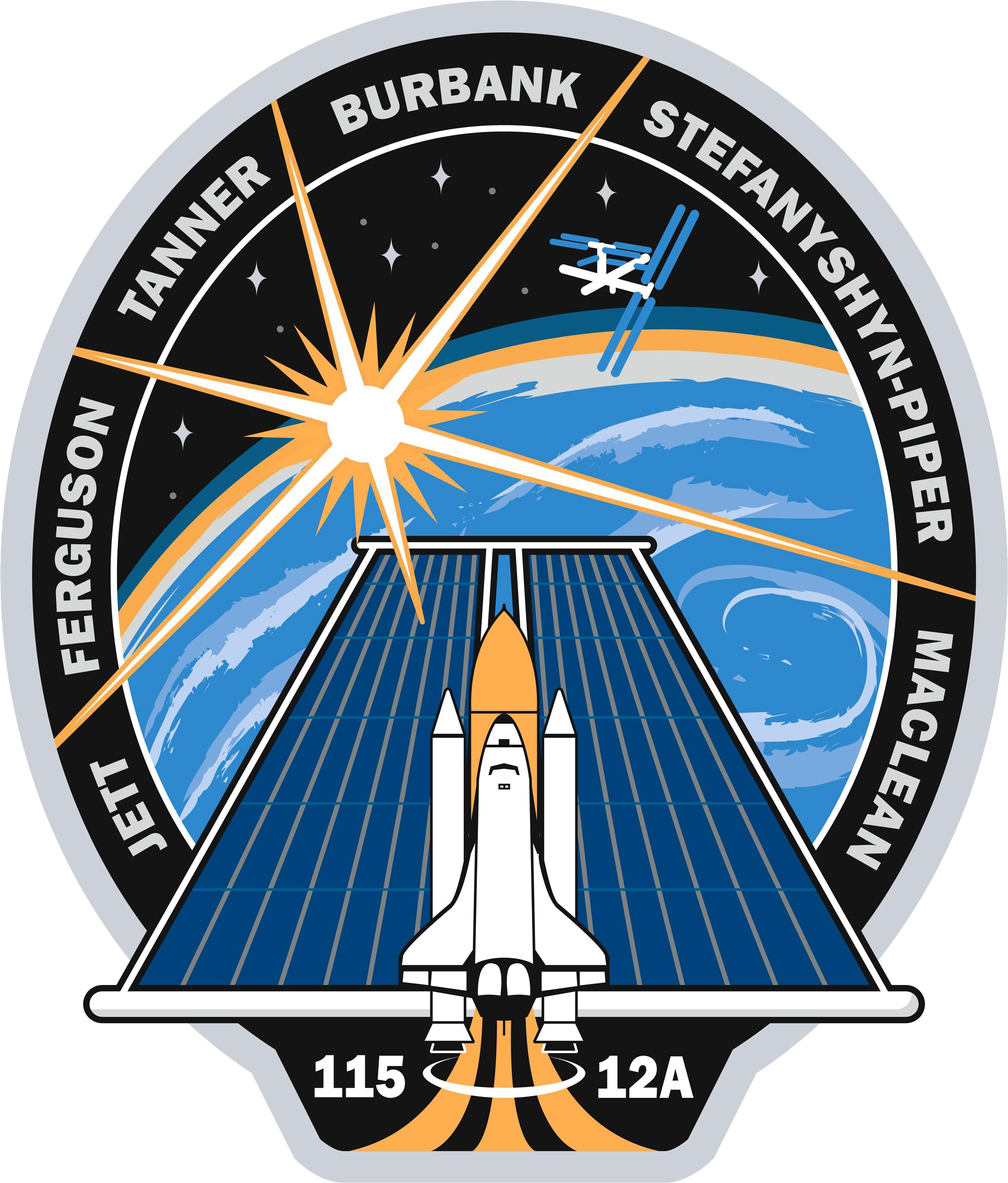 This is the STS-115 insignia. The patch was designed by Graham Huber, Gigi Lui, and Peter Hui in conjunction with York University in Toronto, Canada. This mission continues the assembly of the International Space Station (ISS) with the installation of the truss segments P3 and P4. Following the installation of the segments utilizing both the shuttle and the station robotic arms, a series of three space walks will complete the final connections and prepare for the deployment of the station's second set of solar arrays. To reflect the primary mission of the flight, the patch depicts a solar panel as the main element. As the Space Shuttle Atlantis launches towards the ISS, its trail depicts the symbol of the Astronaut Office. The starburst, representing the power of the sun, rises over the Earth and shines on the solar panel. The shuttle flight number 115 is shown at the bottom of the patch, along with the ISS assembly designation 12A (the 12th American assembly mission). The blue Earth in the background reminds us of the importance of space exploration and research to all of Earth's inhabitants. The NASA insignia design for shuttle flights is reserved for use by the astronauts and for other official use as the NASA Administrator may authorize. Public availability has been approved only in the forms of illustrations by the various news media. When and if there is any change in this policy, which is not anticipated, the change will be publicly announced.